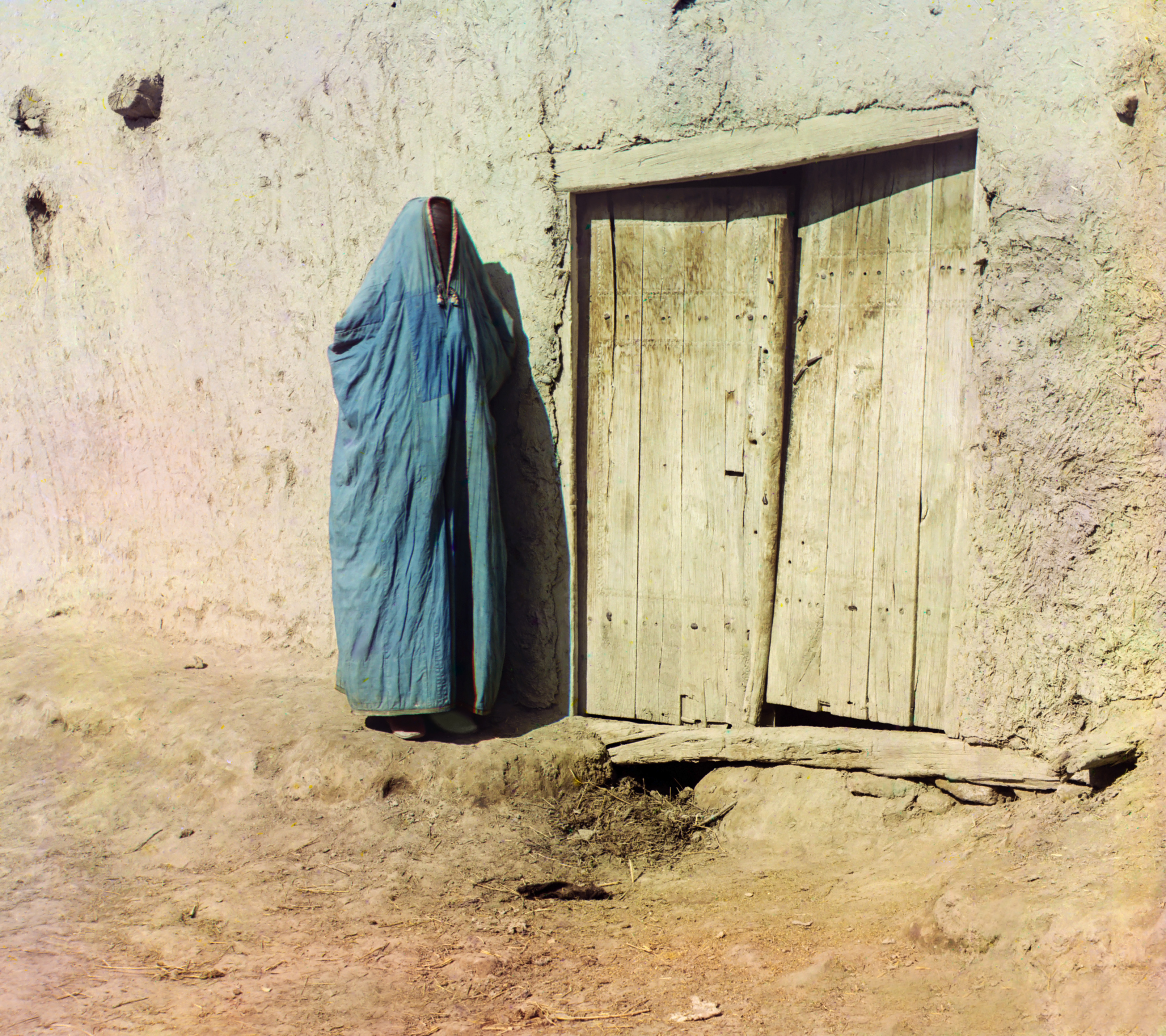 Original Description: Sart woman. Samarkand. Woman in purdah, standing near wooden door. The garment worn "appears to be" a paranja.[1]